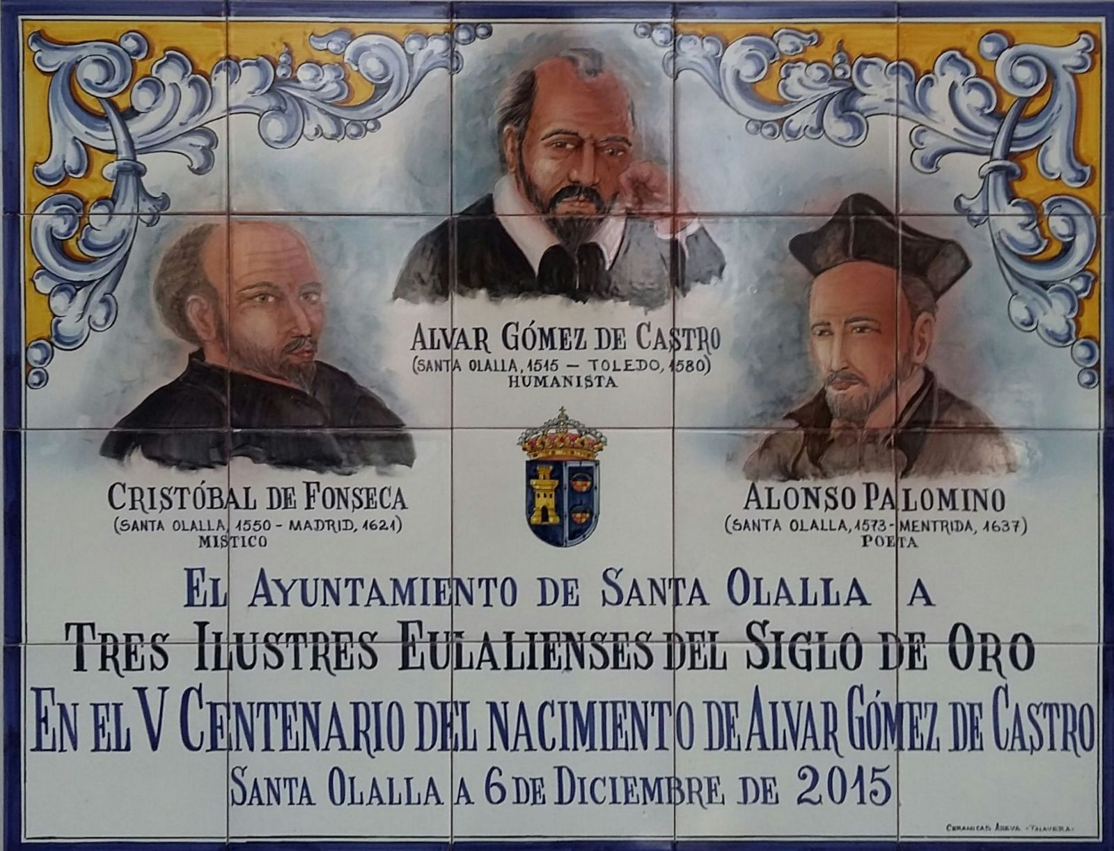 Placa con motivo del V Centenario del nacimiento de Alvar Gómez de Castro